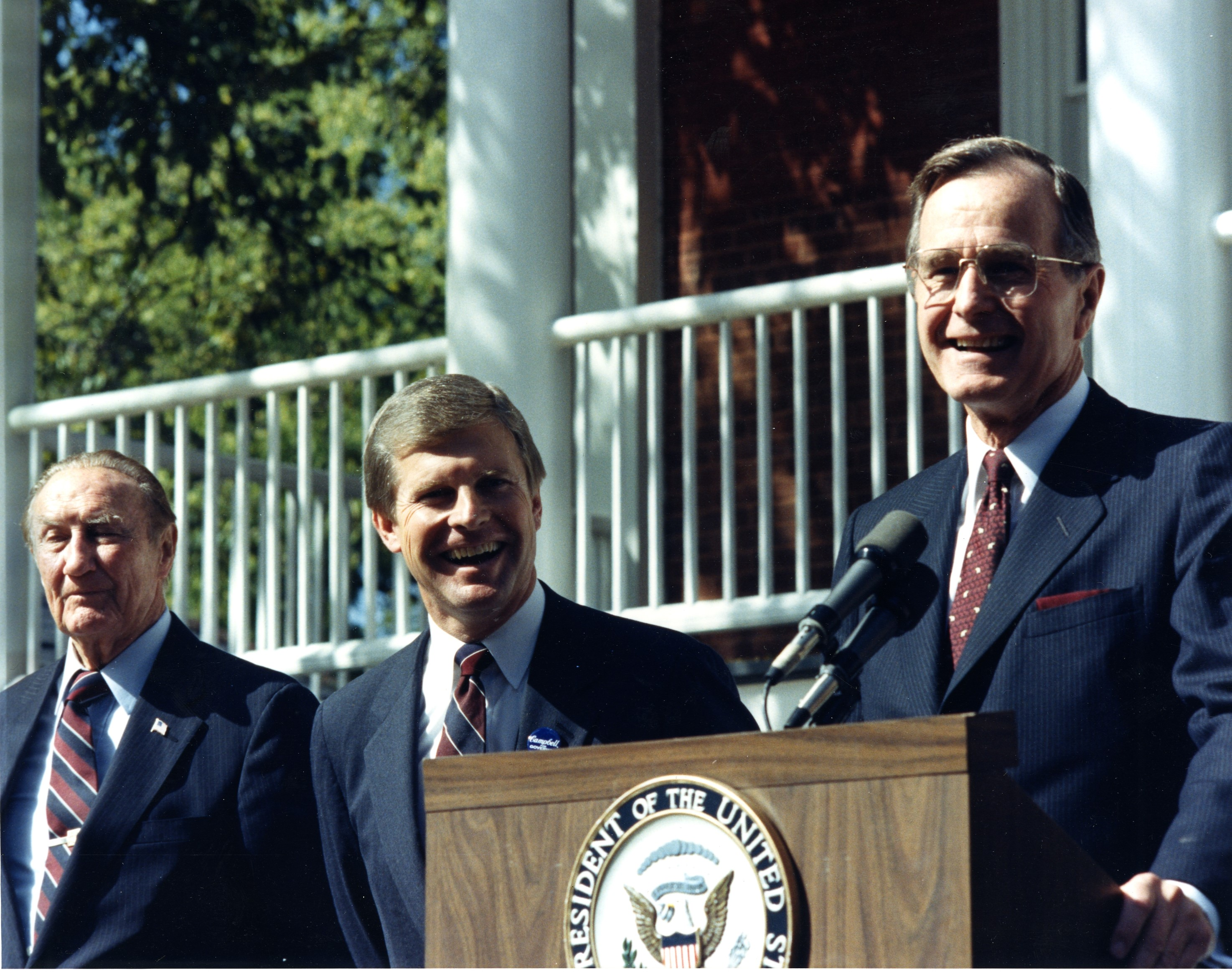 A photo of Gov. Carroll Campbell laughing and smiling at a 1986 campaign rally. Also pictured are Vice President George H.W. Bush and Senator Strom Thurmond.